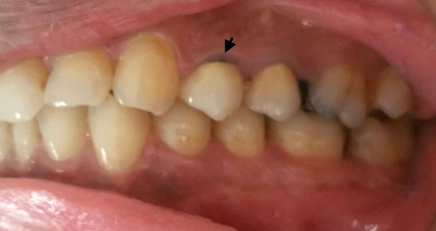 Unaesthetic display of metal in a porcelain fused to metal crown in a first premolar tooth